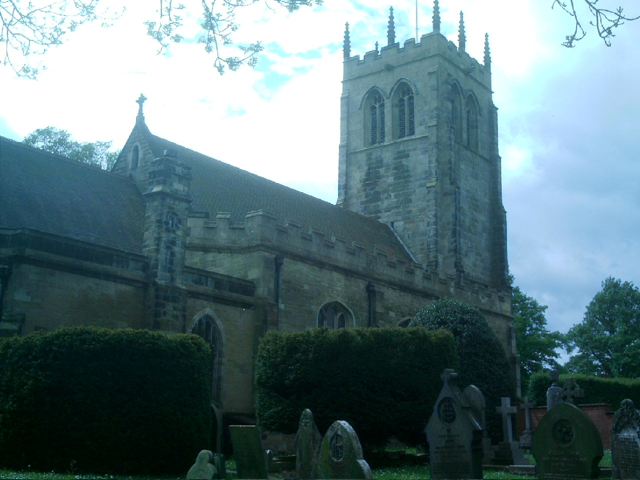 Greasley - a church in Nottinghamshire